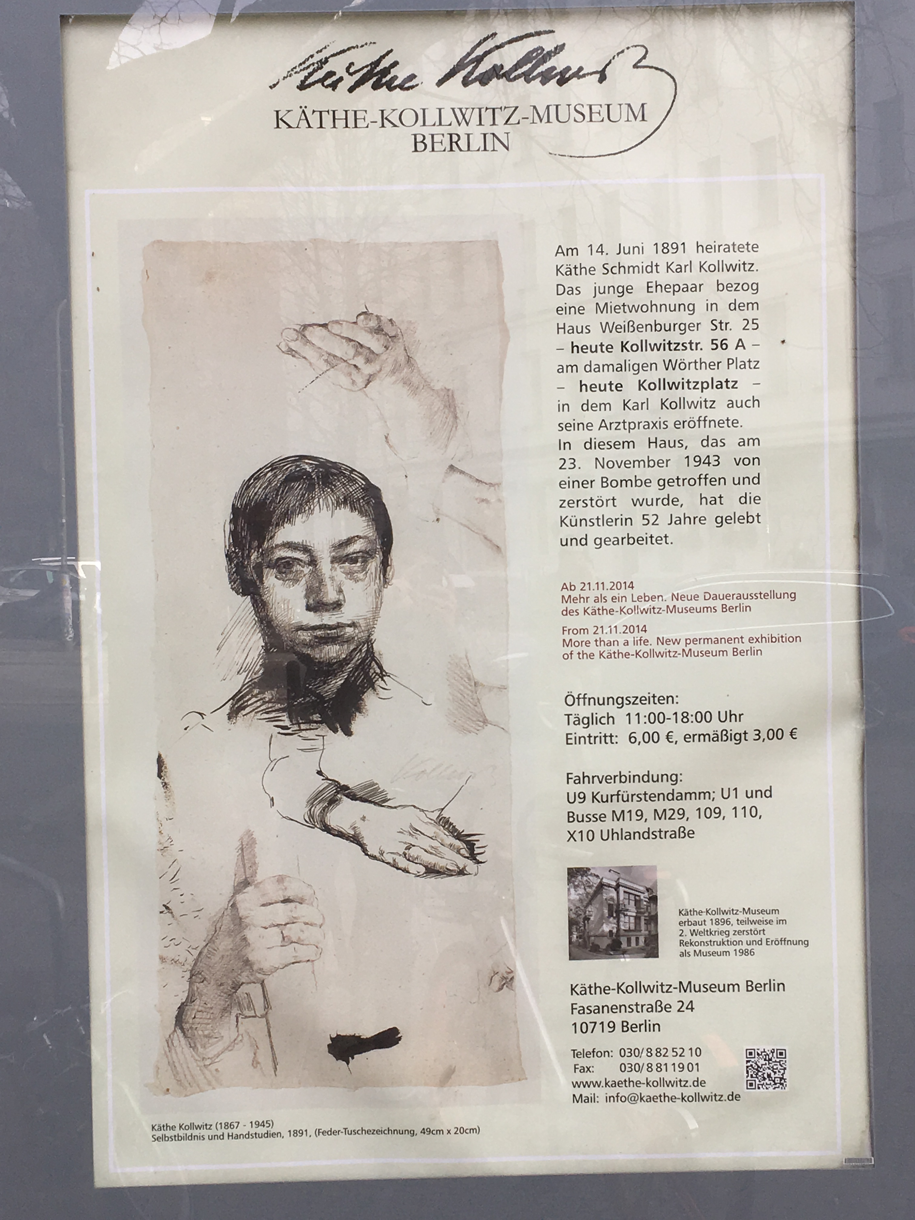 Leuchtkasten Kollwitzstraße 56a mit Hinweis auf Käthe Kollwitz Museum in Charlottenburg.